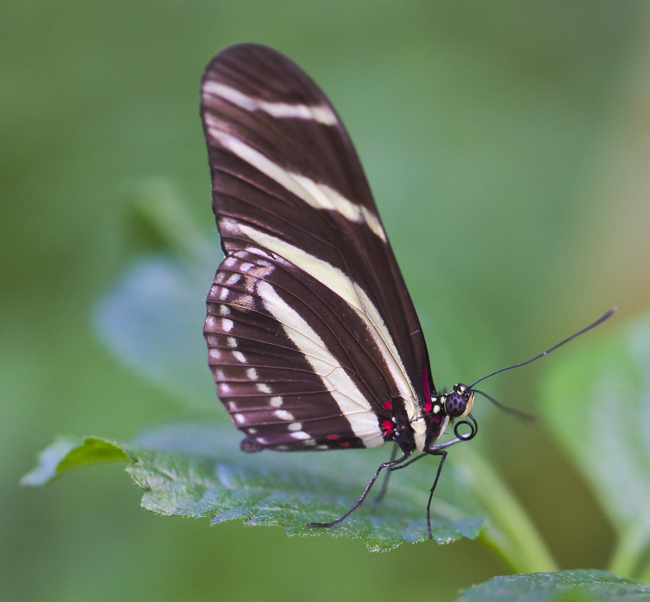 Heliconius charithonia, Butterfly zoo of Icod de los Vinos, Tenerife, Spain